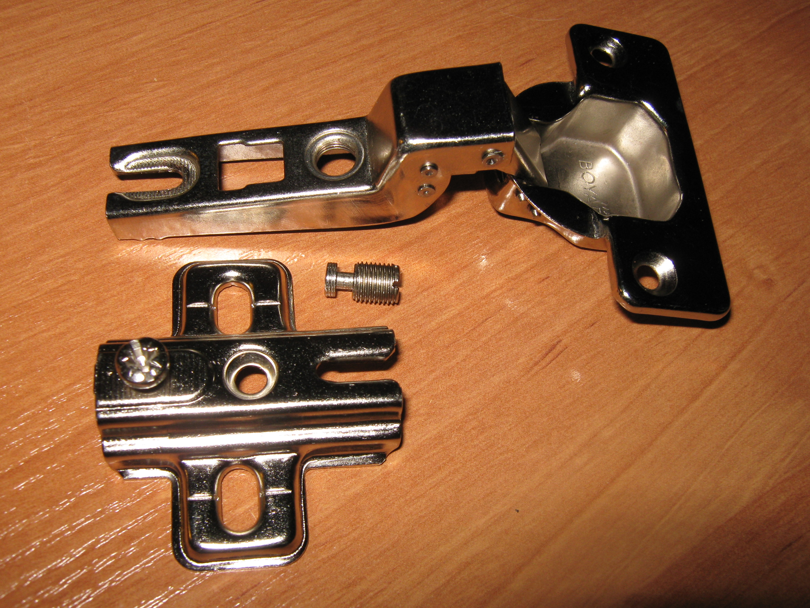 Furniture hinge half overlap Slide-on system.